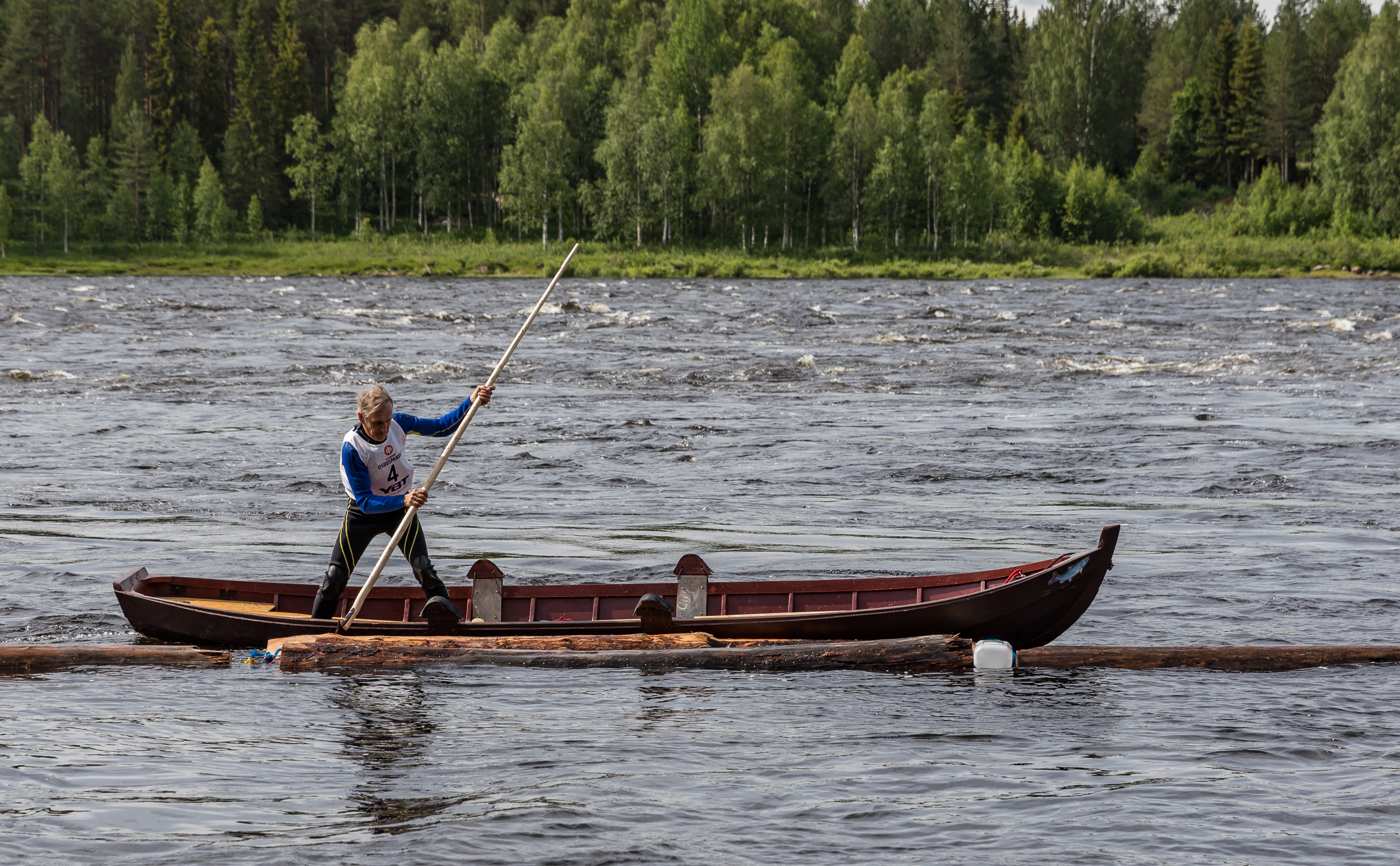 Log drivers in Tornionjoki, Pello, Finland